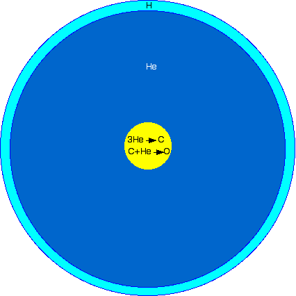 Not to scale schematic cross section of a hot subdwarf-B-Star.